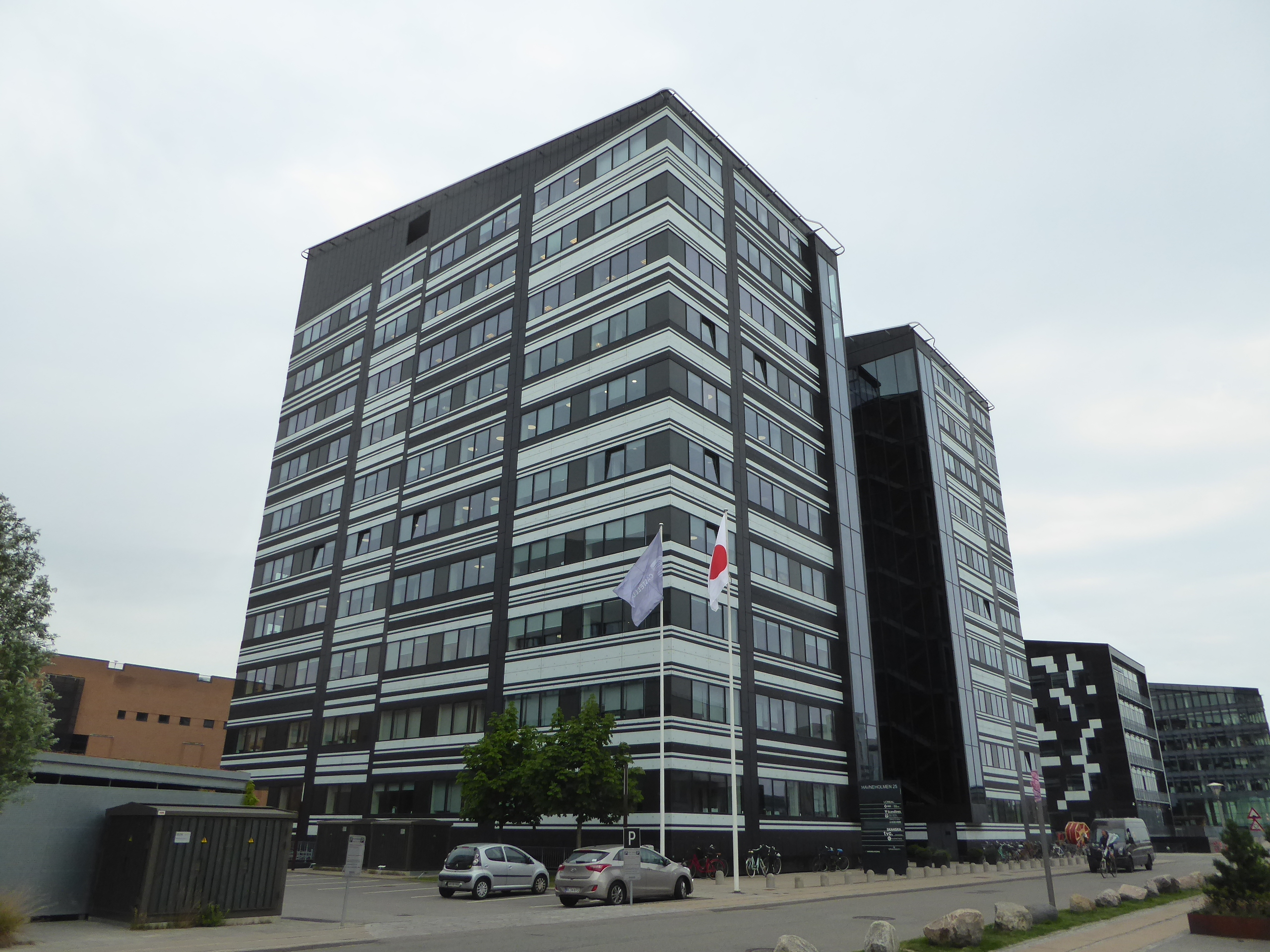 The office building Tower at Havneholmen in Vesterbro in Copenhagen. The embassy of Japan is situated here.